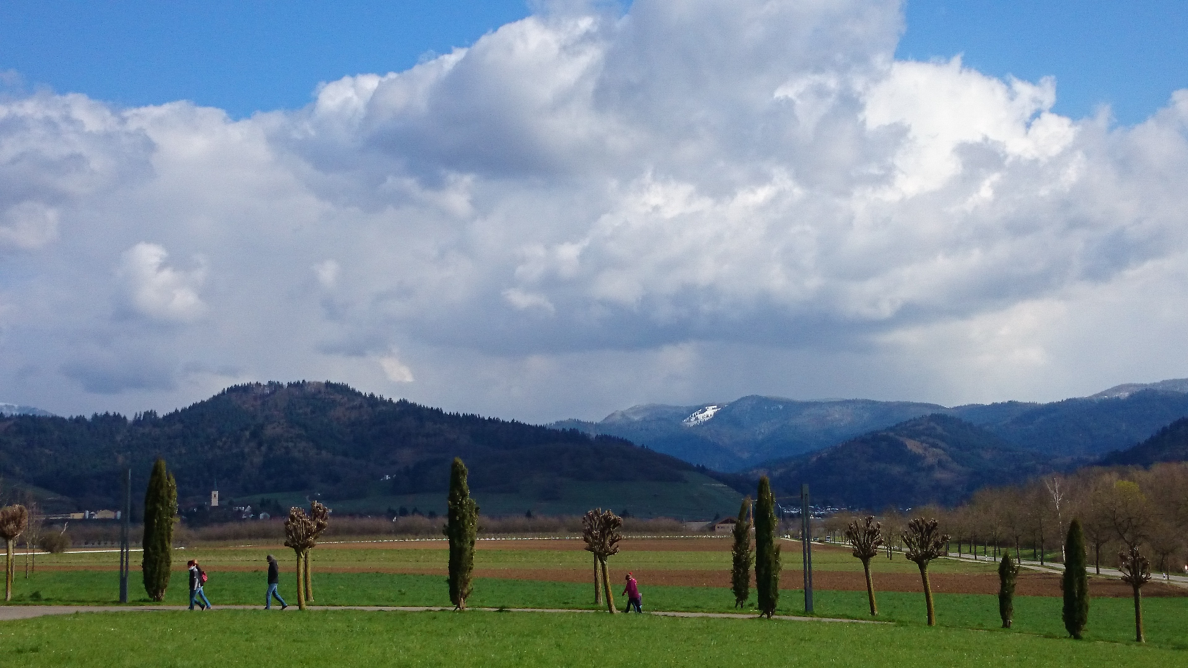 Heitersheim in spring